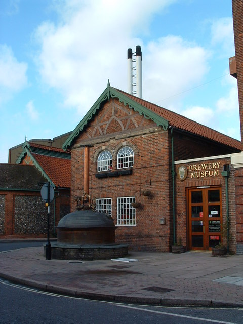 Brewery Museum Greene King brewery museum Bury St.EDmunds Suffolk.